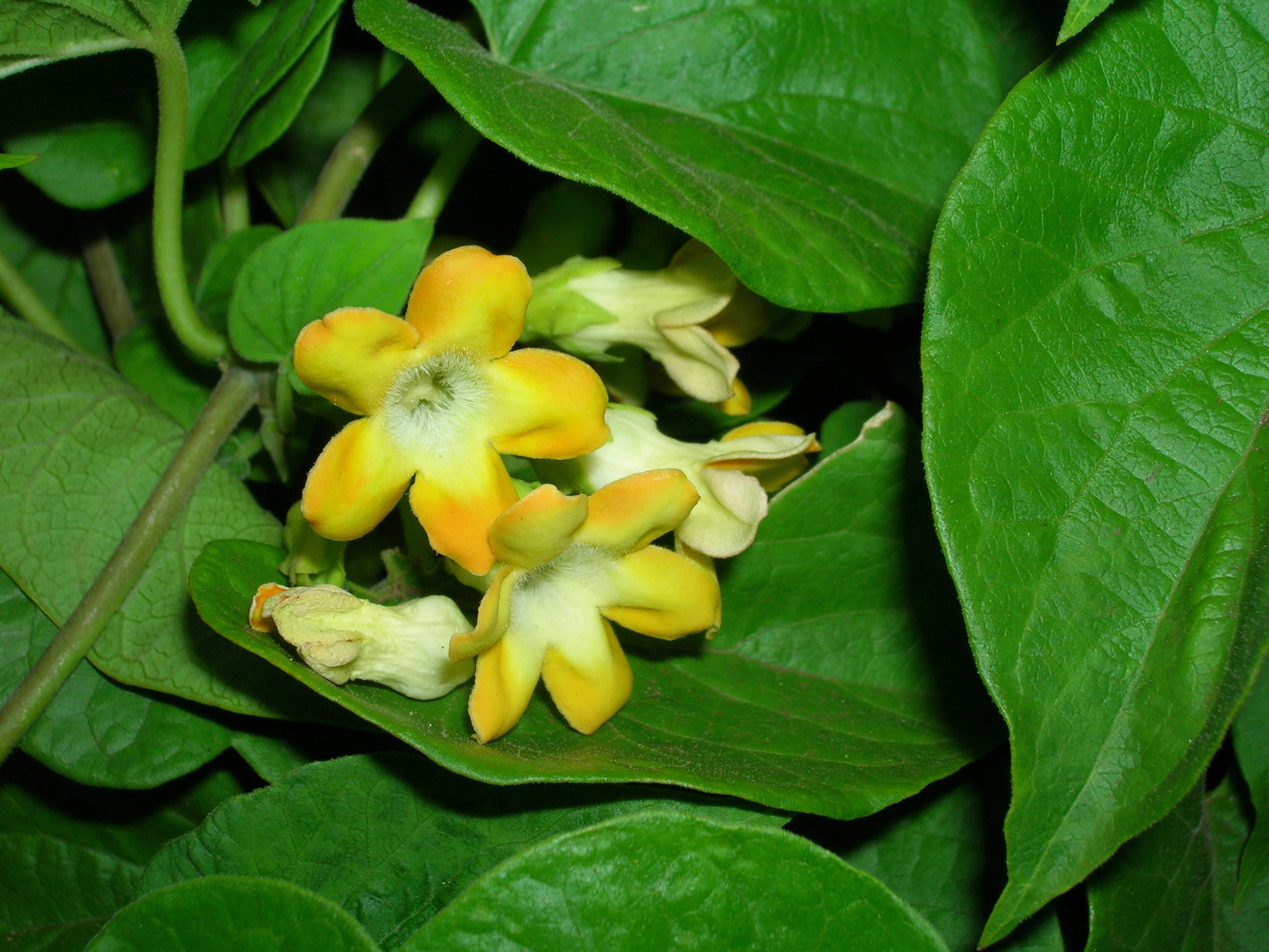 Telosma cordata (flowers). Location: Maui, HDOA Kahului